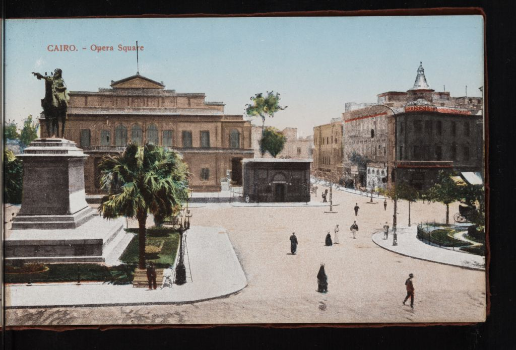 Public square with a statue on a pedestal on the left side and a hotel named "Russia" on the right side